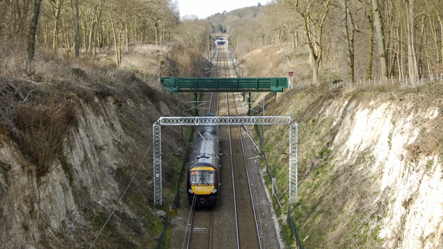 Railway cutting near Audley End